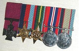 William Ellis Newton's medals on display at the Australian War Memorial in March 2009. His Victoria Cross is at left.